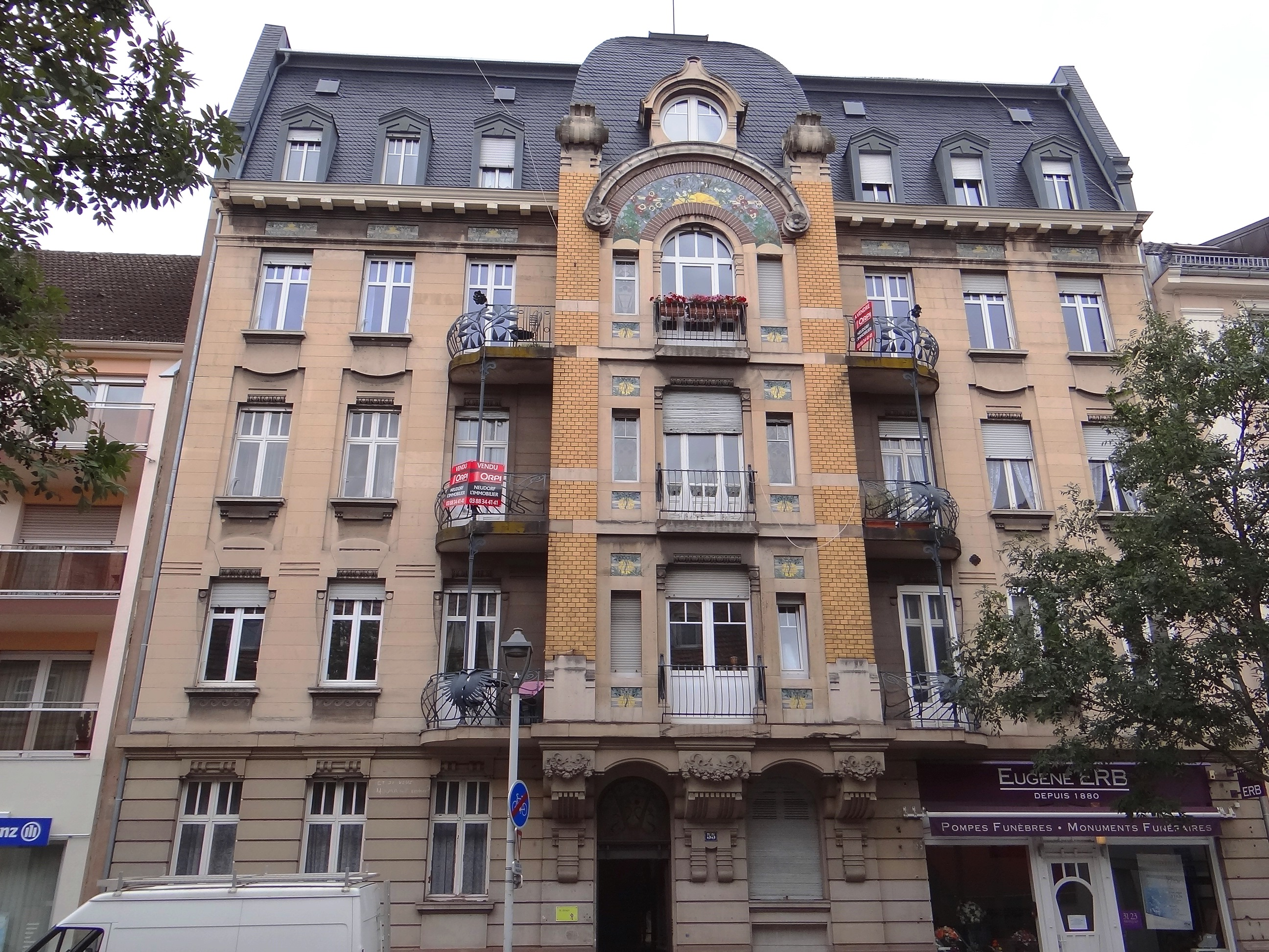 Art Nouveau architecture in Strasbourg